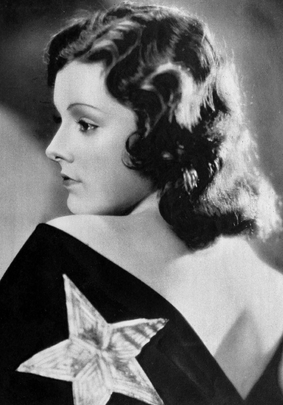 Photo of actress Lillian Roth.